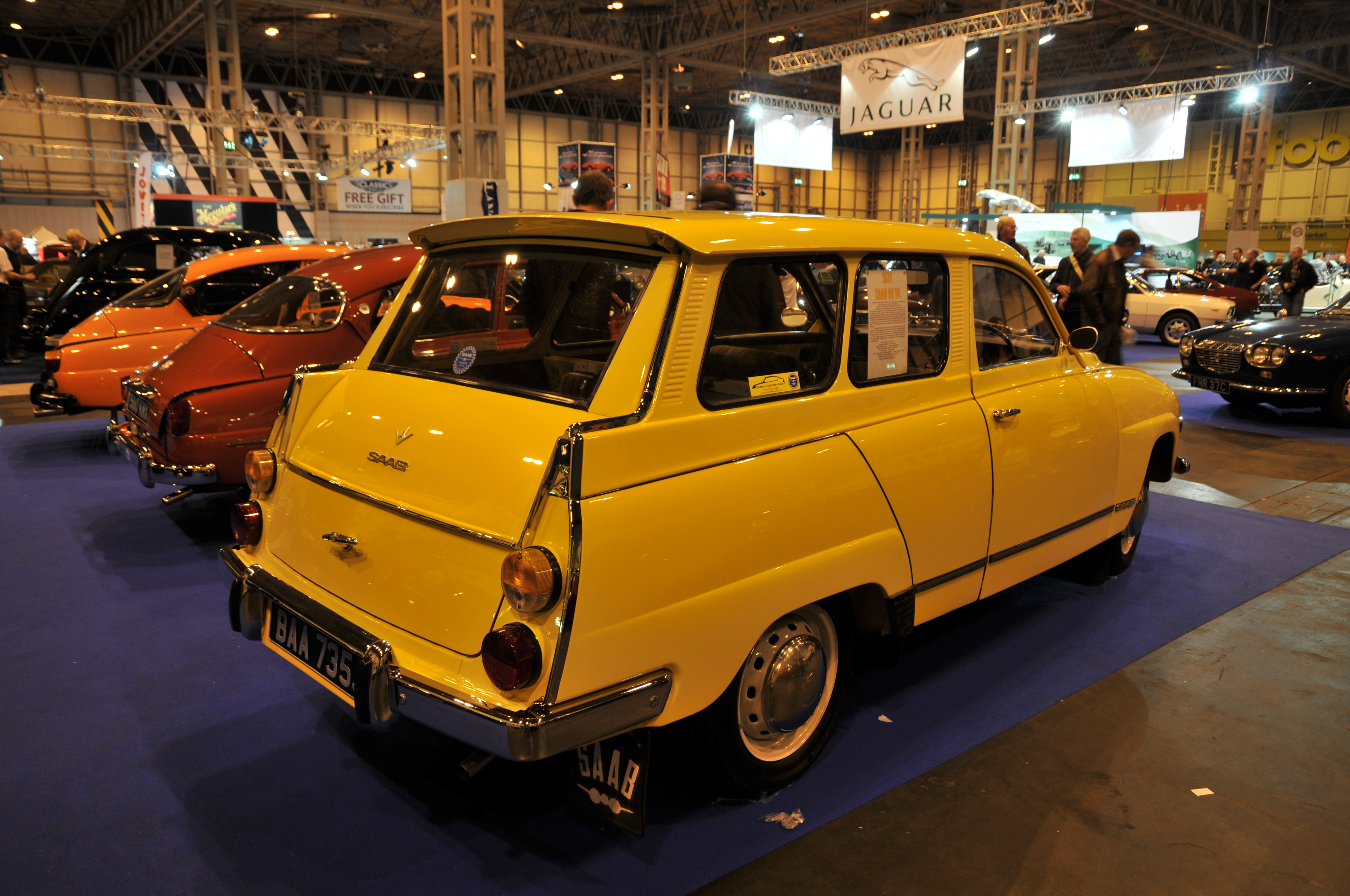 2010 NEC Clsassic Car Show